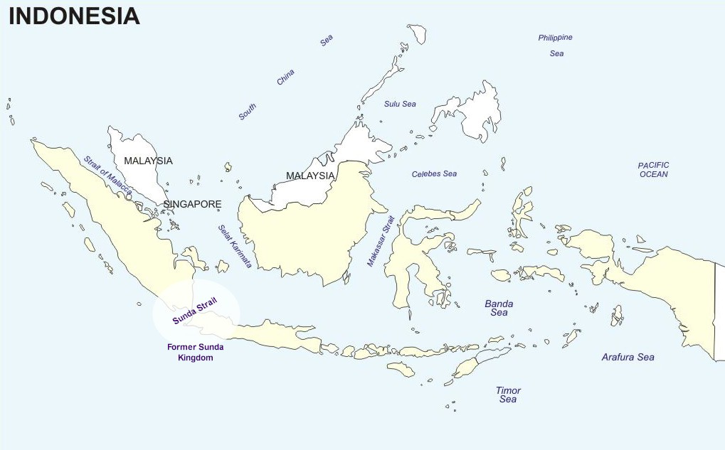 This is a map of former Sunda Kingdom.